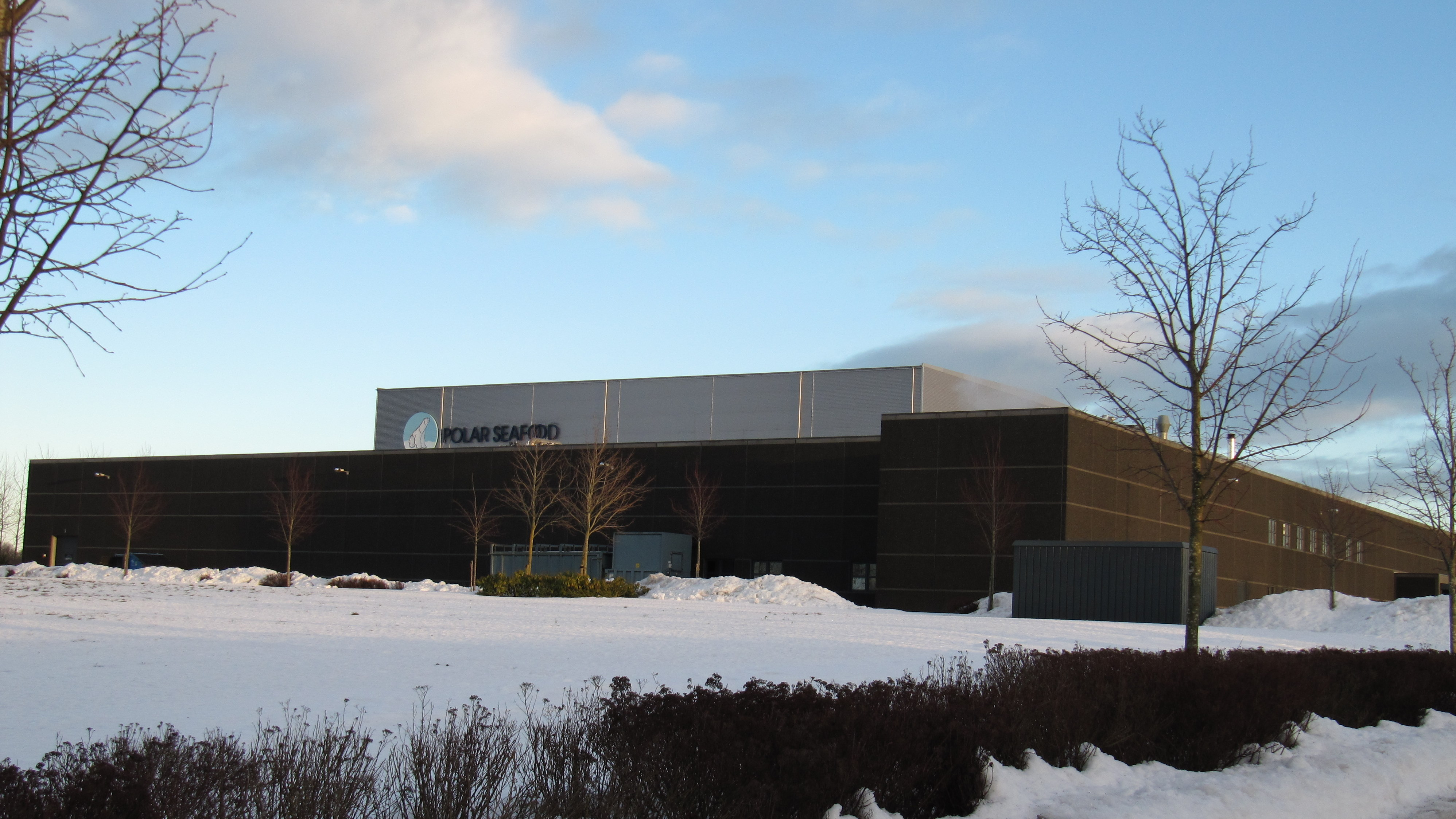 Polar Seafood at Vester Hassing